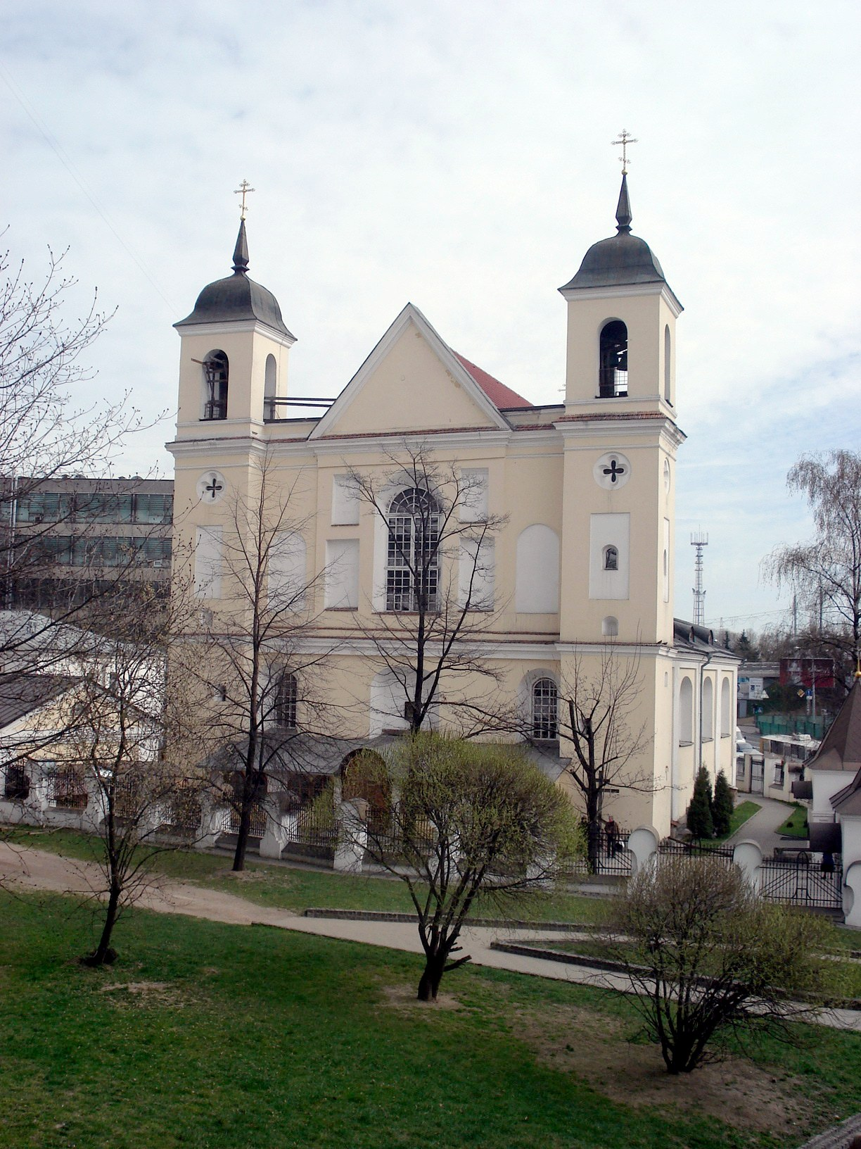 Church of Saints Apostles Peter and Paul in Miensk